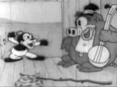 Screen capture from the cartoon Box Car Blues. Pictured are Bosko and the banjo playing pig as they sing and roll along in a box car. A copyright search was done for renewals in film for the years 1957 and 1958. There were no listings for the title Box Car Blues. There's no evidence this continues to be under copyright.